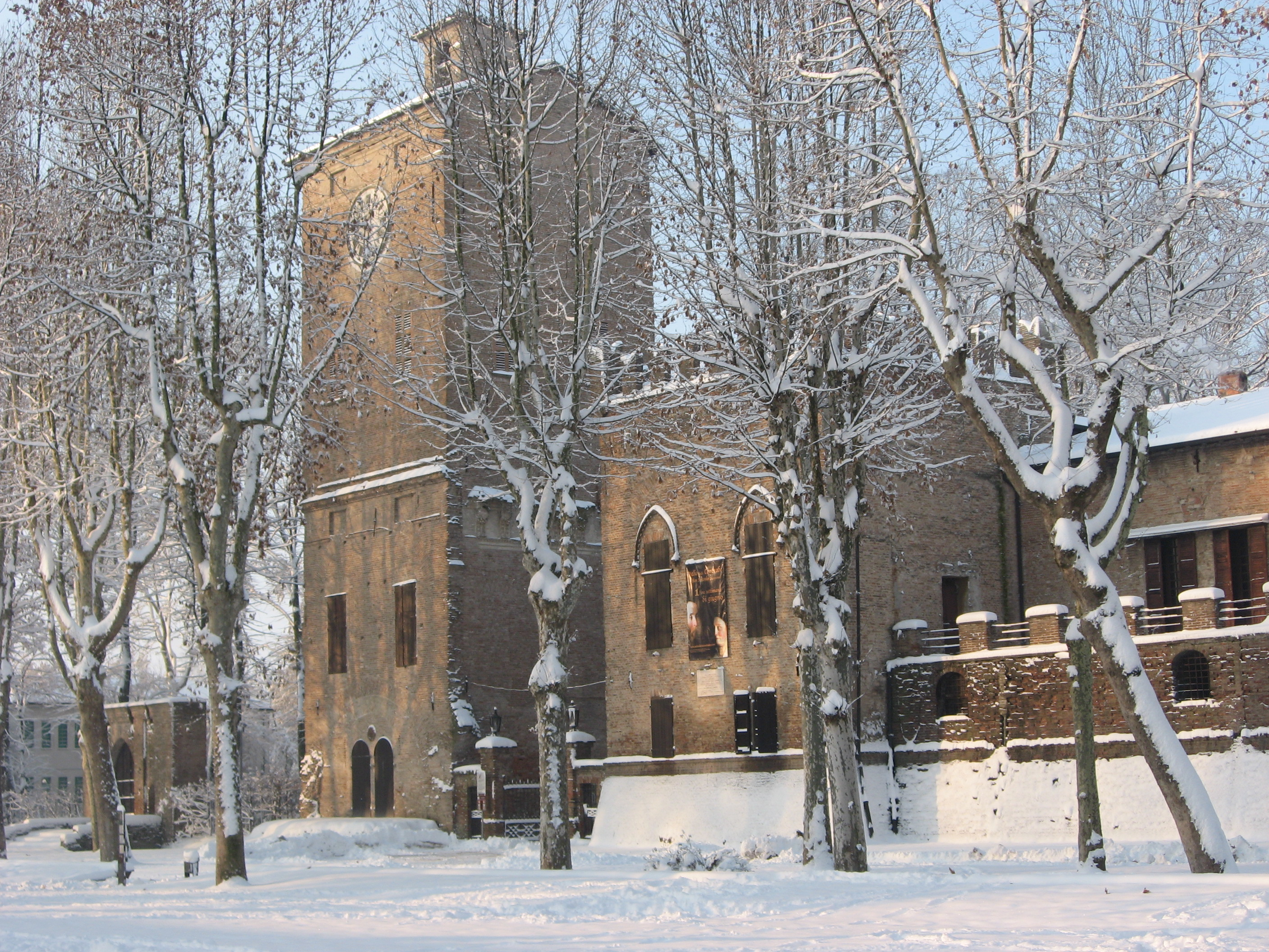 Castle